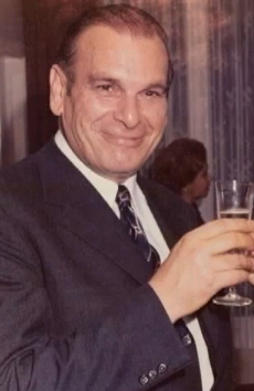 Cornelis Petrus Maria Dillen at 23 years of age